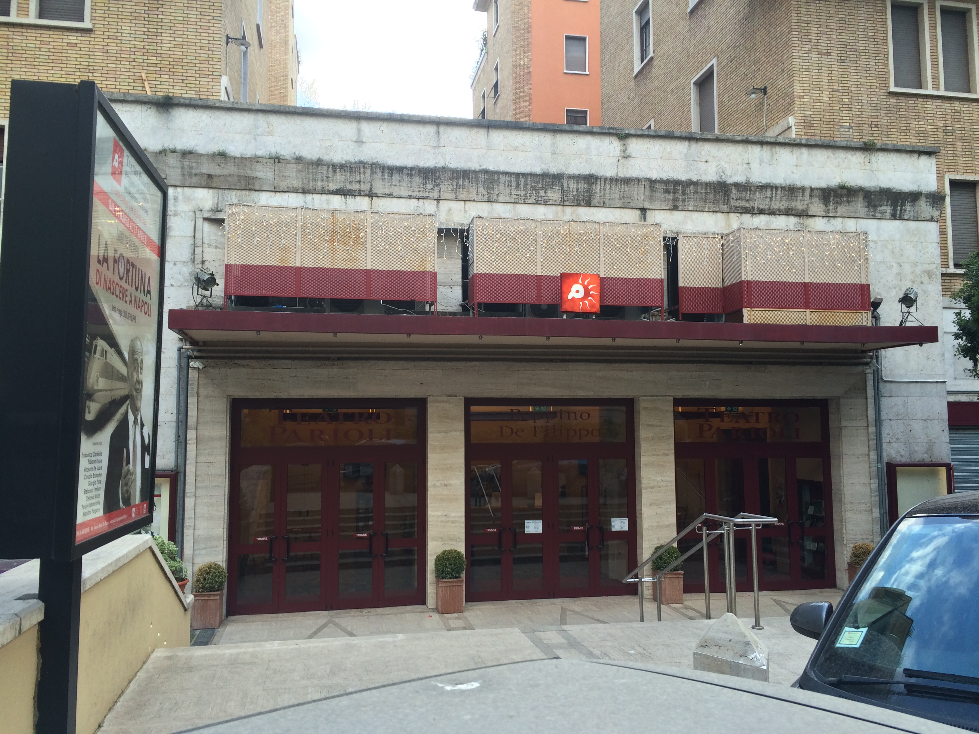 entrance of Teatro Parioli in Rome